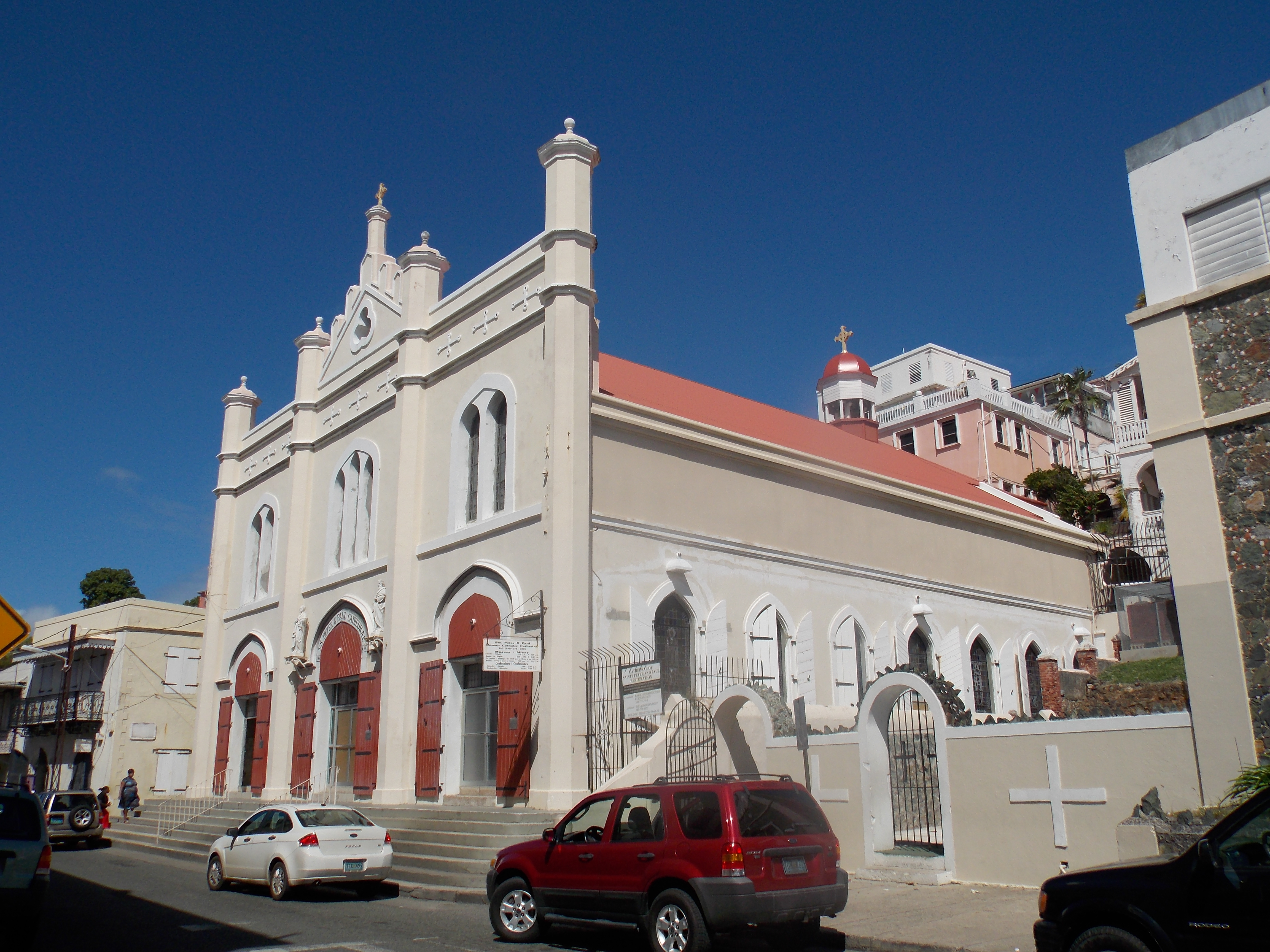 Saints Peter and Paul Cathedral in Charlotte Amalie on the island of St. Thomas in the U.S. Virgin Islands.